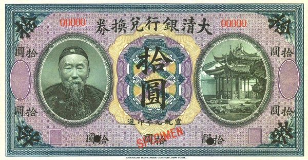 A Chinese banknote issued by the Ta-Ch'ing Government Bank of China during the reign of the Manchu Qing Dynasty in China.